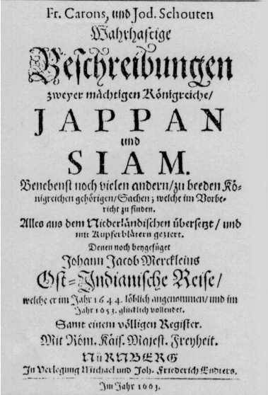 Book cover, from "Report from the powerful kingdoms of Japan and Siam", by Francois Caron, 1645